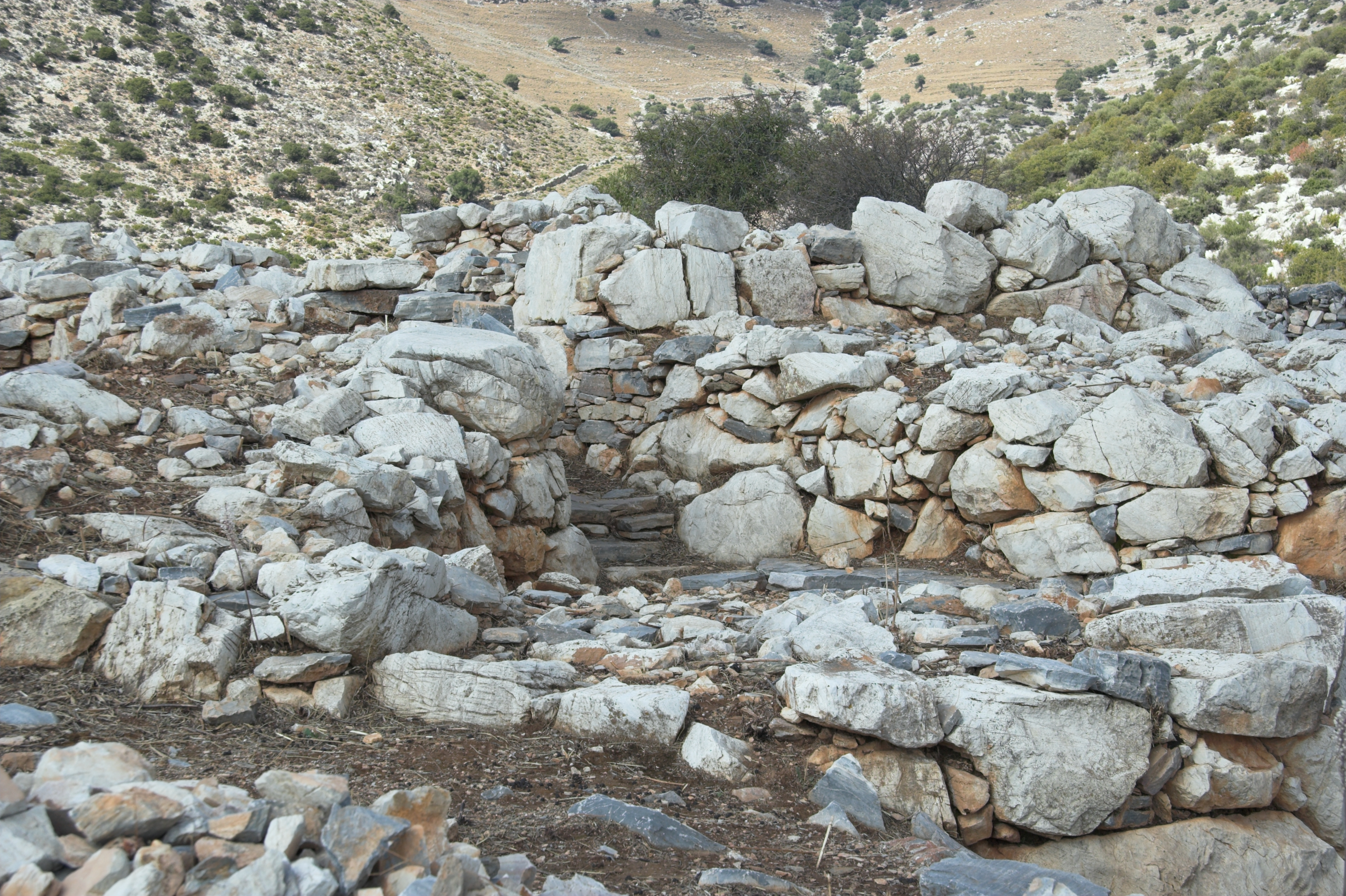 Early Cycladic settlement in Korfari ton Amygdalon over the bay of Panormos, Naxos, Early Bronze Age. Main street, stairs.